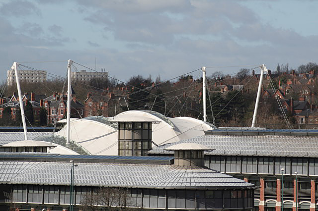 The big tent. The suspension system holding up the main reception building of the HM Revenue and Customs headquarters can be well seen from the top of the multi-storey car park near Nottingham railway station